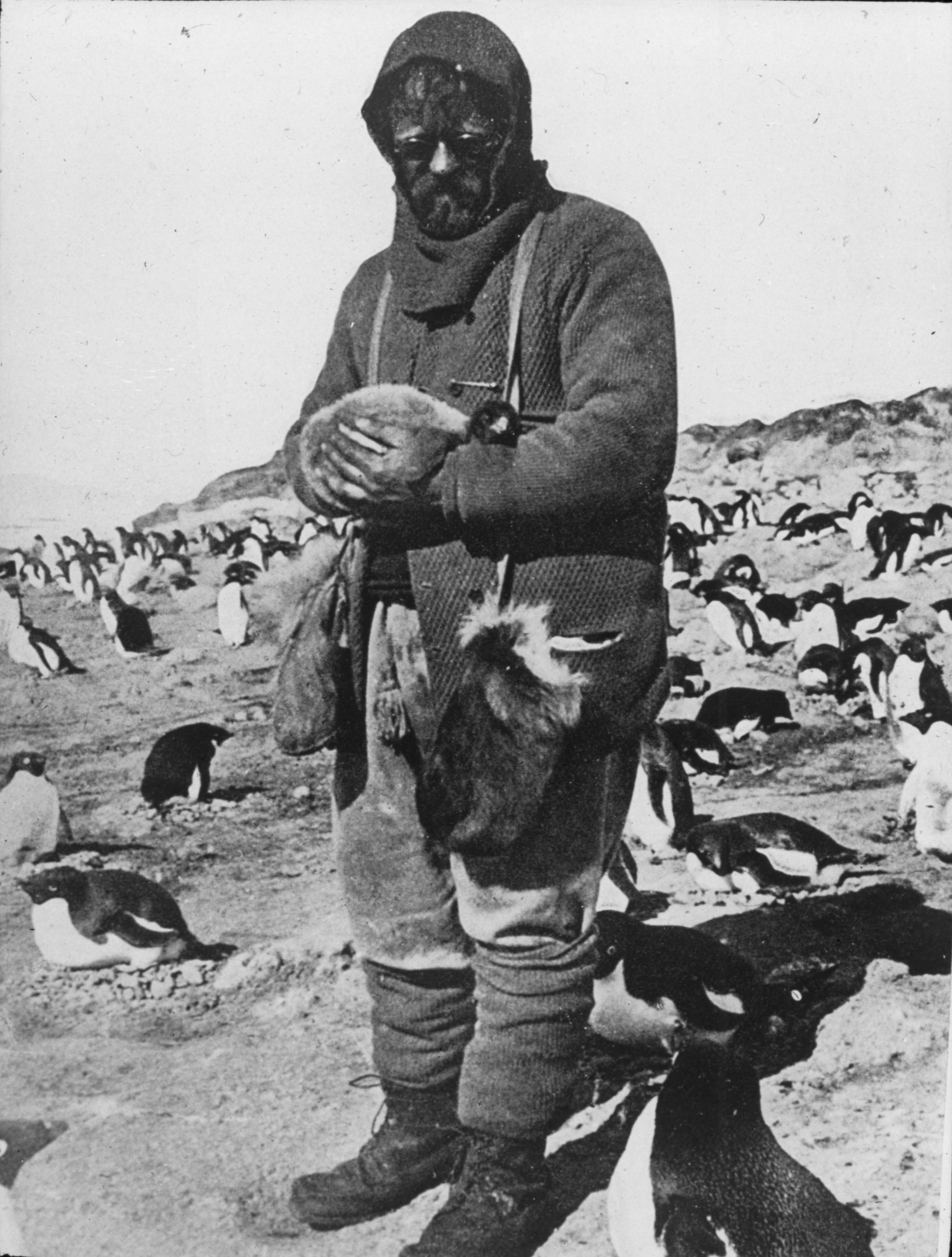 Photographs of the Nimrod Expedition (1907-09) to the Antarctic, led by Ernest Sheckleton